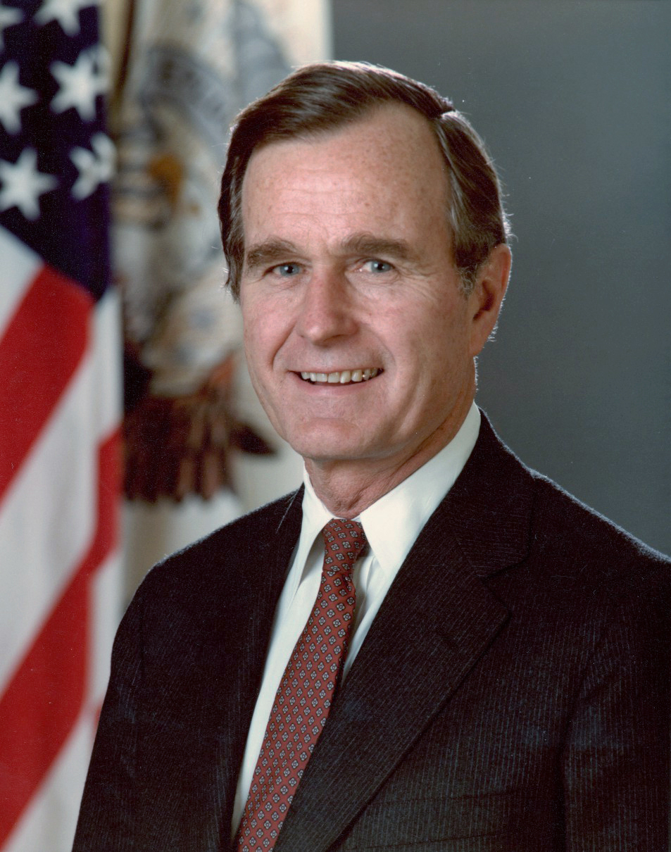 Vice President George H. W. Bush